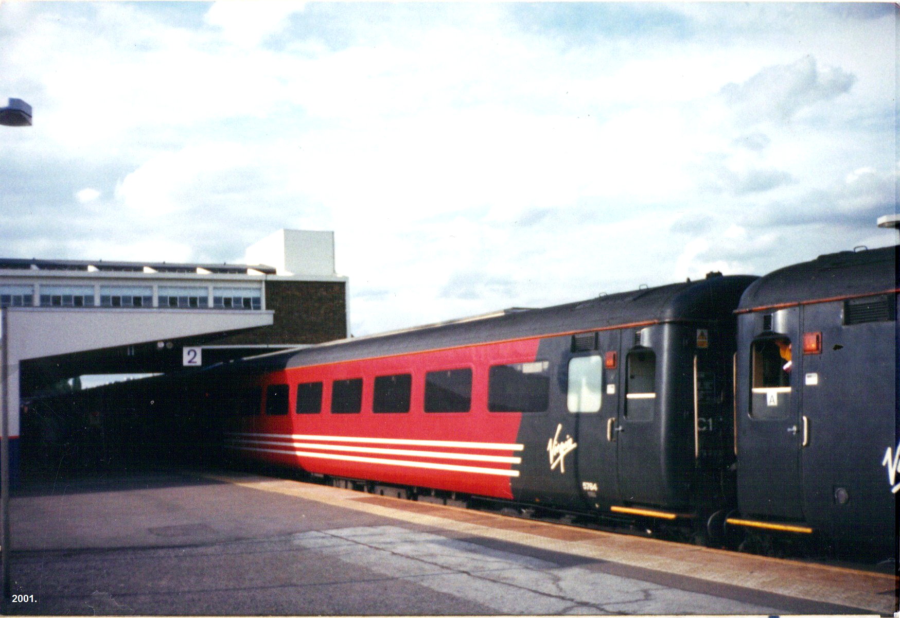 I took the picture of this Virgin Trains' carrage myself at Banbury station in the year 2001. I hereby release it in to the public domain.